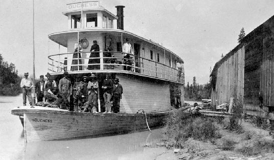 Duchess sternwheeler, at Golden, BC, ca 1893.